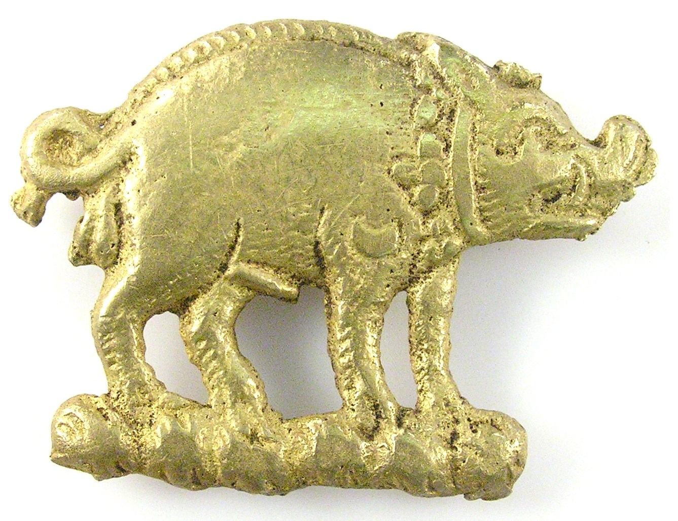 PAS Database ID: LON-A33FF5 Image provided by Kate Sumnall, Finds Liaison Officer for Greater London. Copper-alloy boar mount found on the Thames foreshore near the Tower of London, London in October 2012. The boar is chained and collared, is wearing a crown, and has a crescent moon on the top of one of its forelegs (indicating that its wearer was a second son). It is believed to be associated with King Richard III, and may have been attached to an item of leather clothing worn by one of the king's supporters.